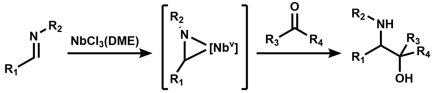 NbIII Reagent mediated Azapinacol Coupling